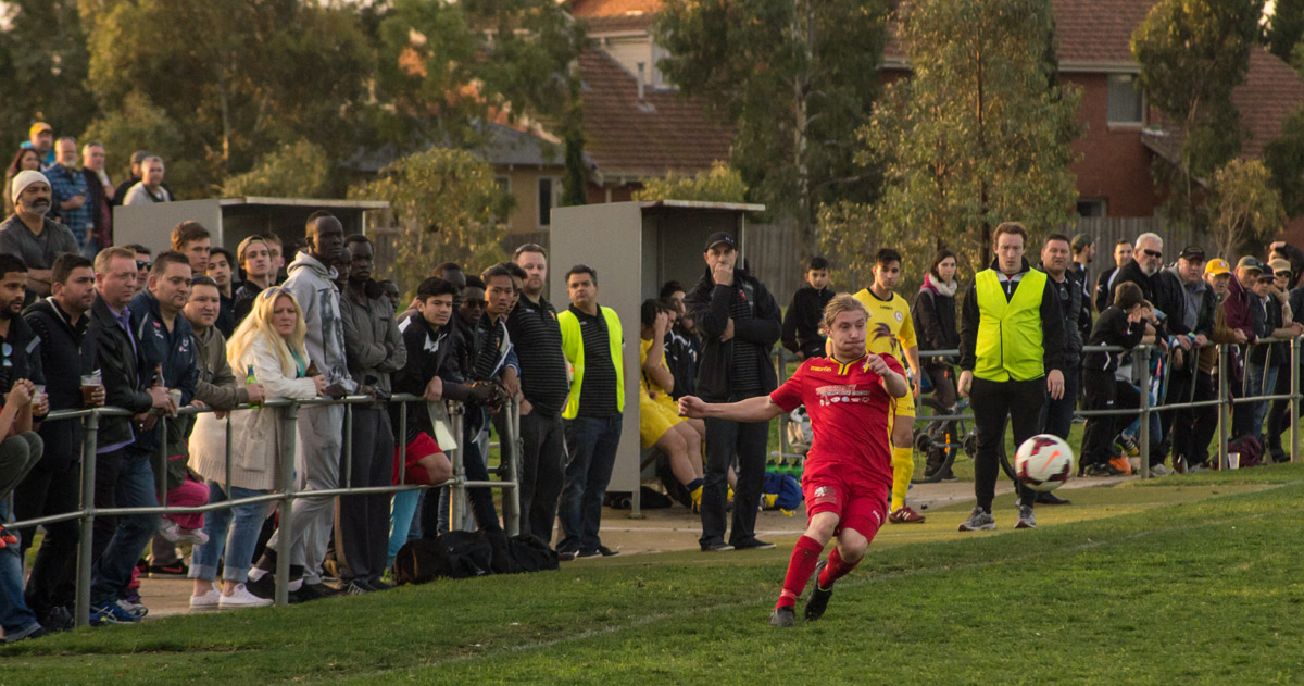 The home crowd watches on in support of The Reds at Grange Reserve in Hoppers Crossing